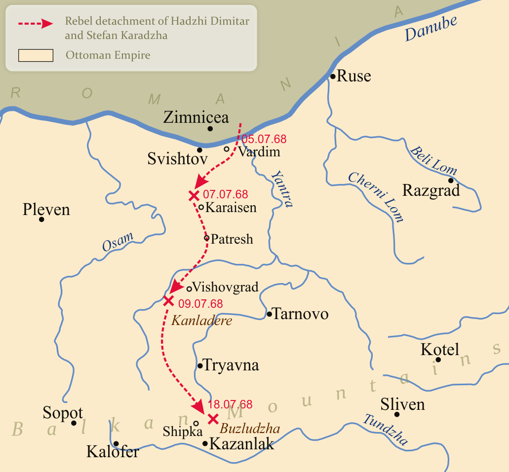 Actions of the rebel detachment of Hadzhi Dimitar and Stefan Karadzha in 1868. The dates are in the old style - Julian calendar. Основана на карта "Националнореволюционно движение (1862-1875)" в "Атлас по история на България за средните училища", издателство "Картография", София, 1990 г.